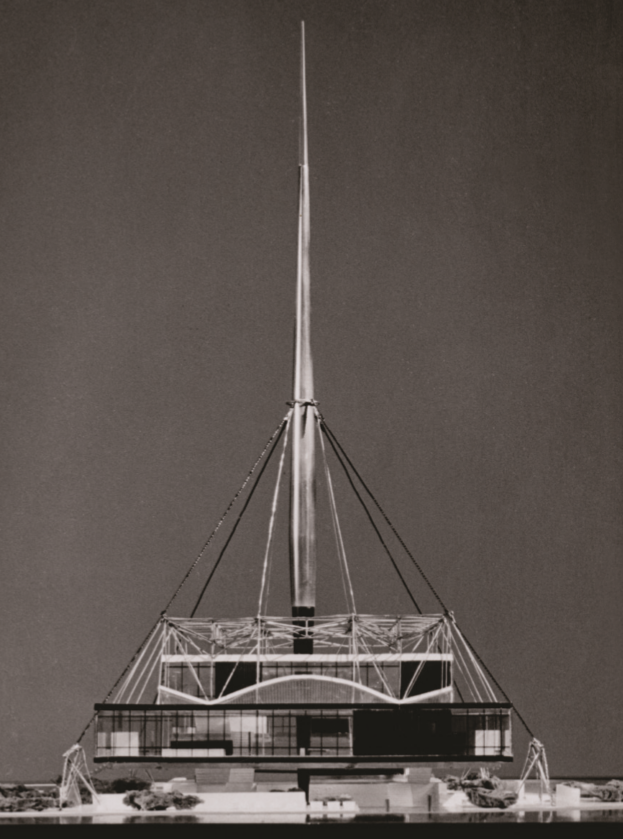 Vjenceslav Richter: Original project for Yugoslav Pavilion on EXPO 1958. Ilustration for texts about EXPO 58 and Vjenceslav Richter.